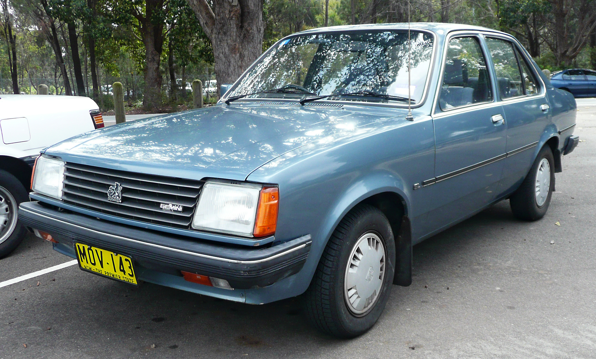 1984 Holden Gemini (TG) SL sedan (with a 1979–1982 TE grille-mounted "Holden" badge). Photographed in Sutherland, New South Wales, Australia.